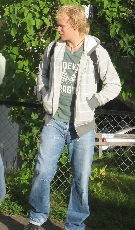 The Norwegian ice hockeyplayer Patrick Thoresen.